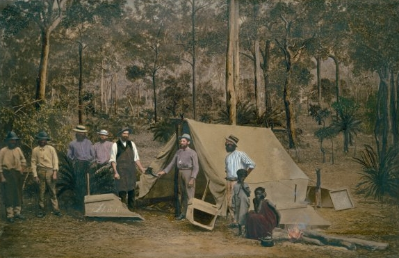 Gold diggers sale, Queensland, albumen photograph overpainted in oil, on canvas, 39.2 x 60.7 cm.